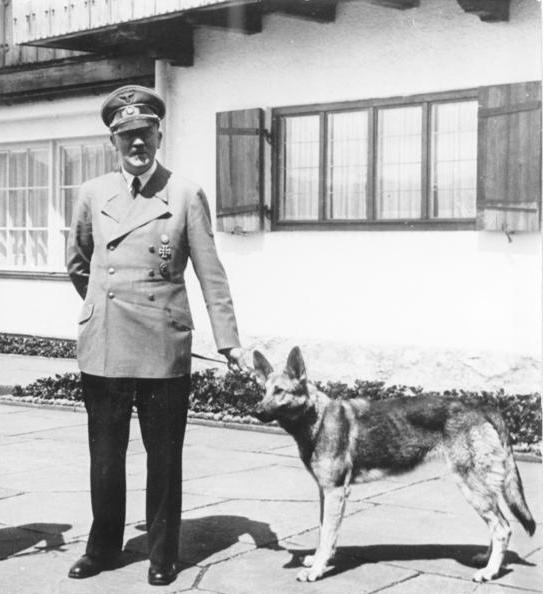 Adolf Hitler with Blondi at the Berghof